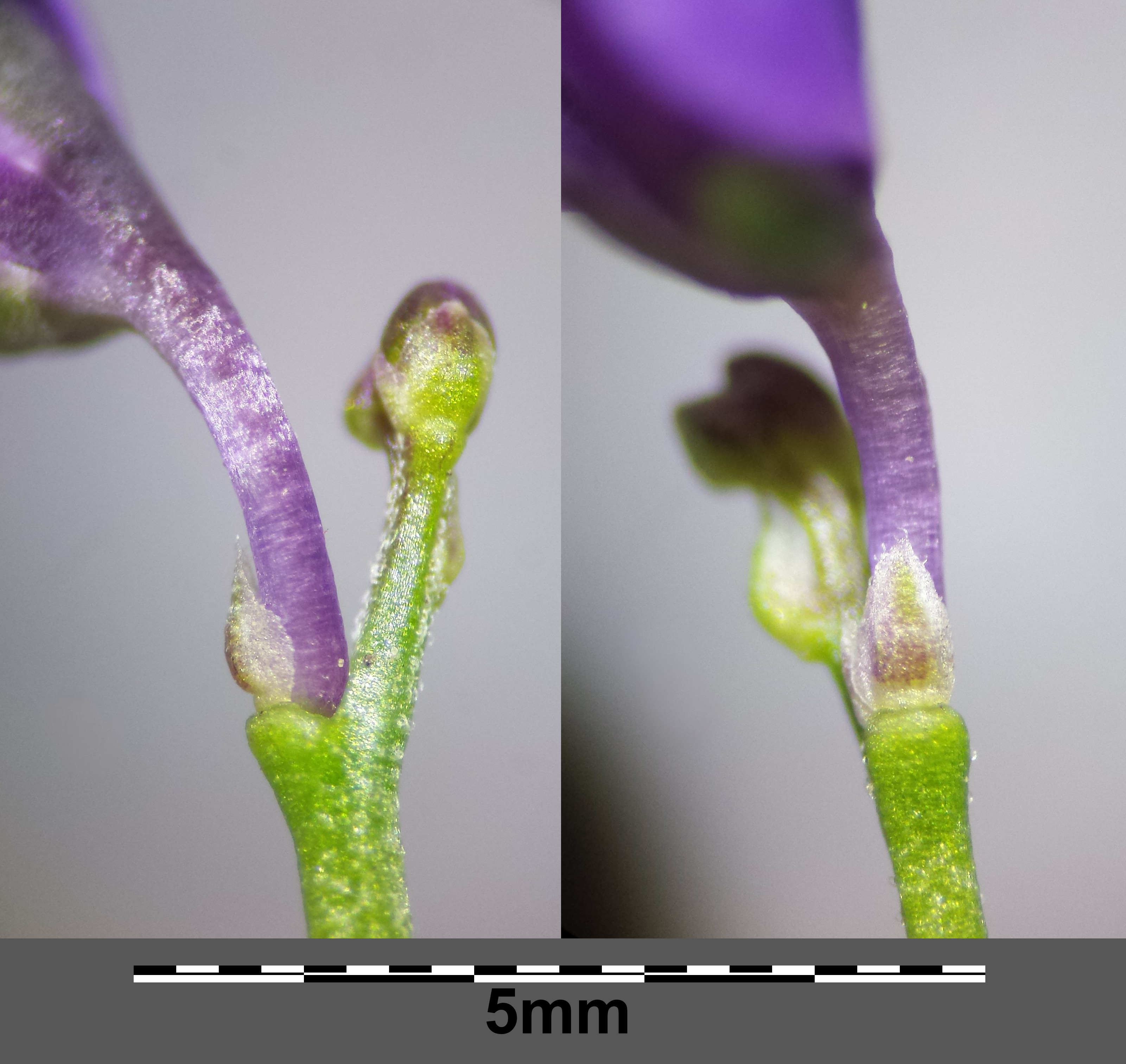 Bract Taxonym: Polygala vulgaris subsp. vulgaris ss Fischer et al. EfÖLS 2008 ISBN 978-3-85474-187-9 Location: nearby Riebeis, Rappottenstein, district Zwettl, Lower Austria - ca. 750 m a.s.l. Habitat: wayside